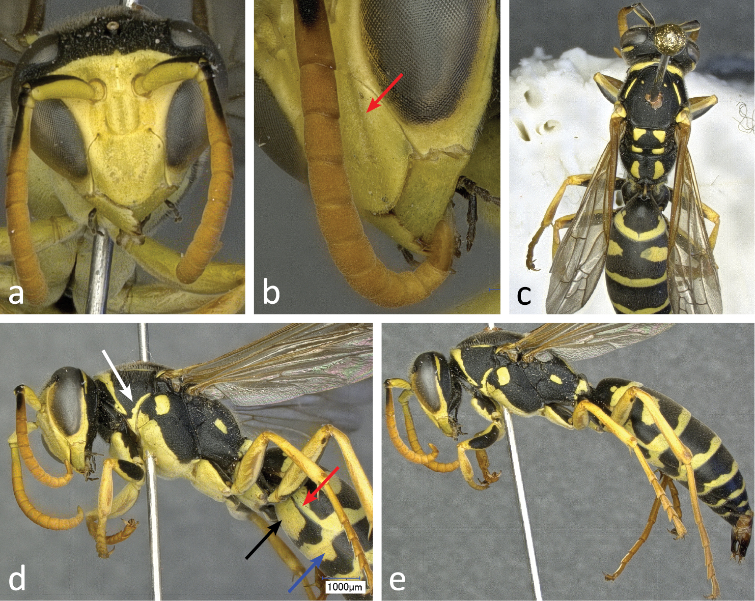 male Polistes bischoffi a: frontal view of head b: lateral view of lower face c: dorsal view of body d: lateral view of head, mesosoma, and base of metasoma e: lateral view of body. red arrow: faint lateral ridge on clypeus (b), lateral extension of terminal band on tergum 2 (d) white arrow: yellow ventrolateral stripe of the pronotum (d) black arrow: large yellow spot on sternum 2 blue arrow: yellow basal band of sternum 3